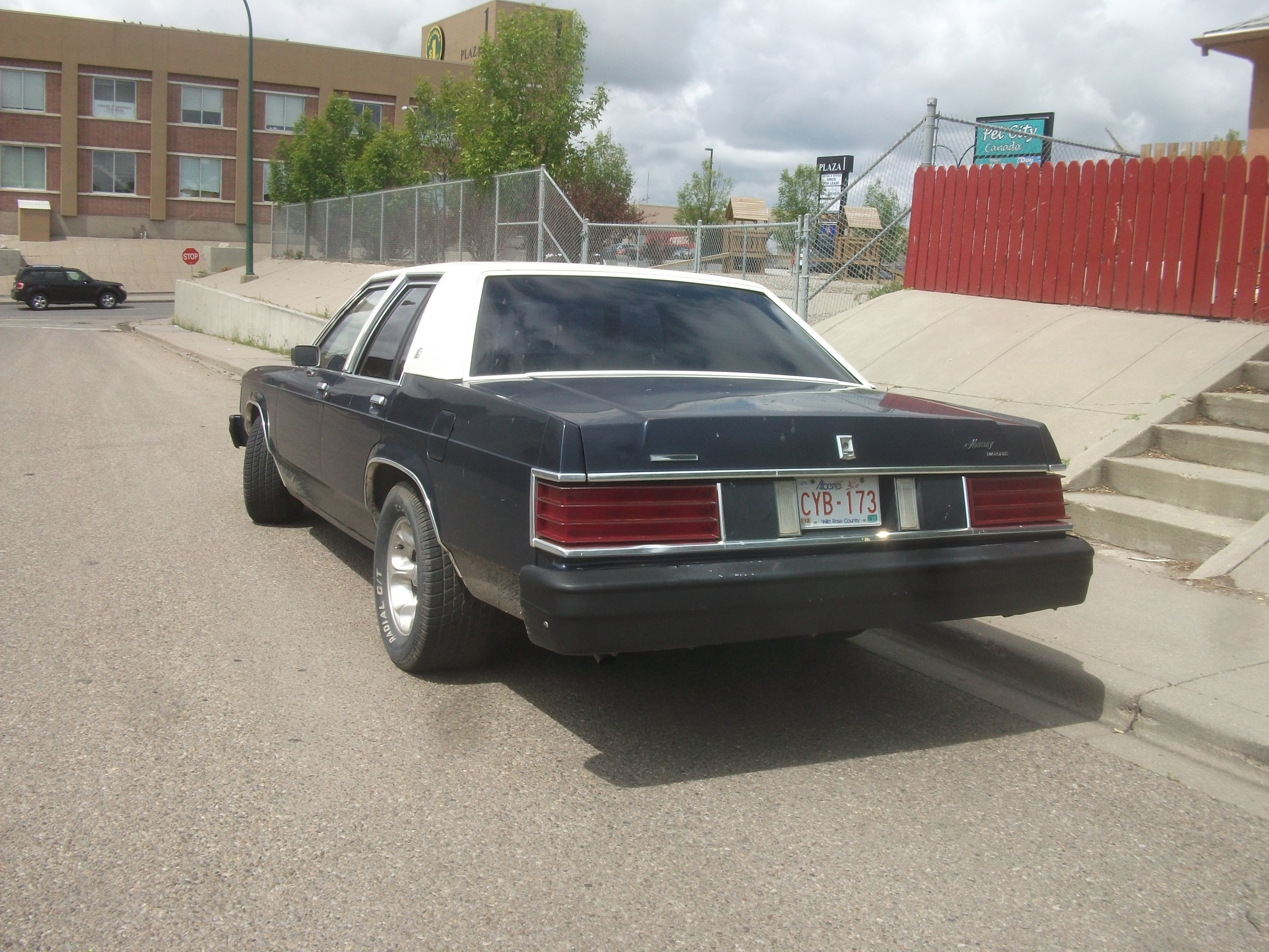 Mercury Marquis with blacked out grill and aftermarket rims.